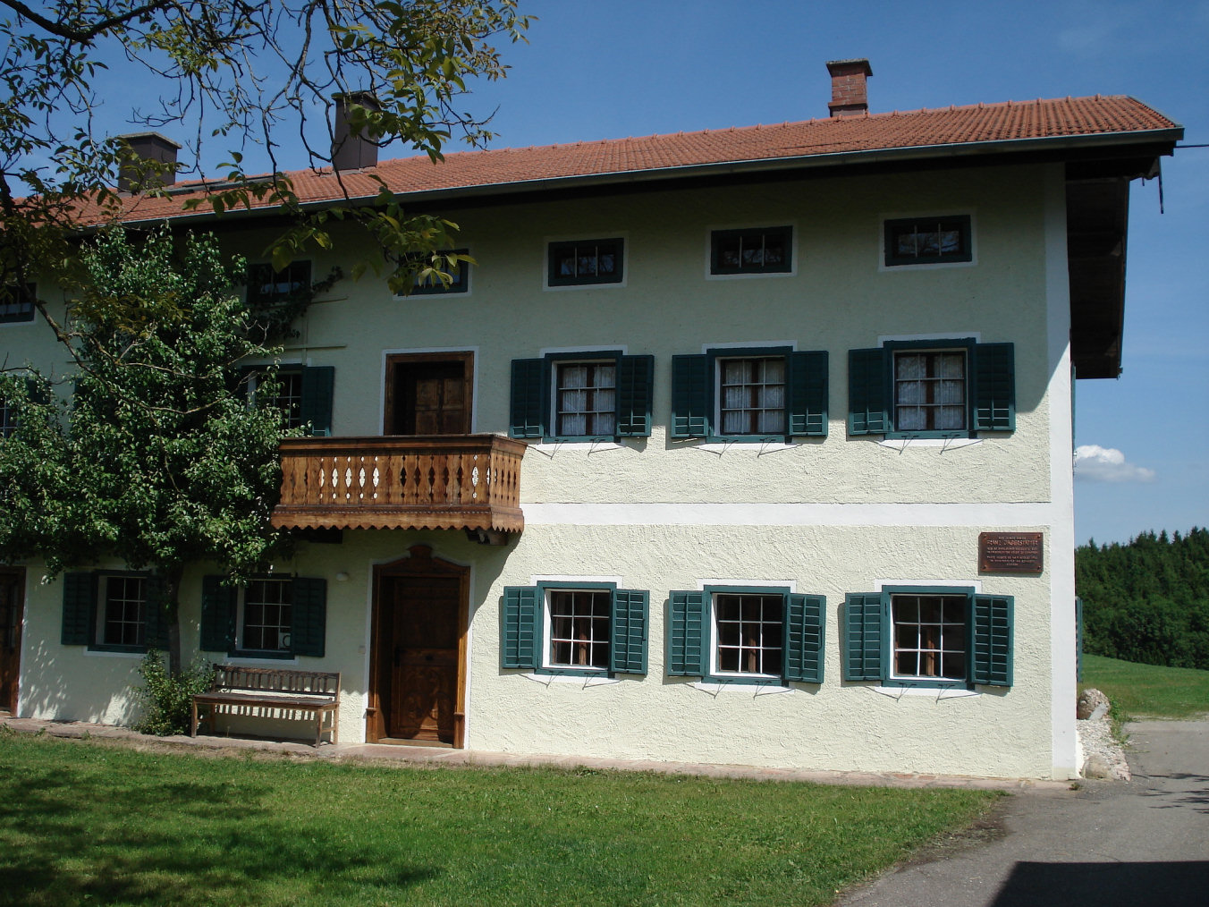 Sankt Radegund (Austria), house of Franz Jägerstätter